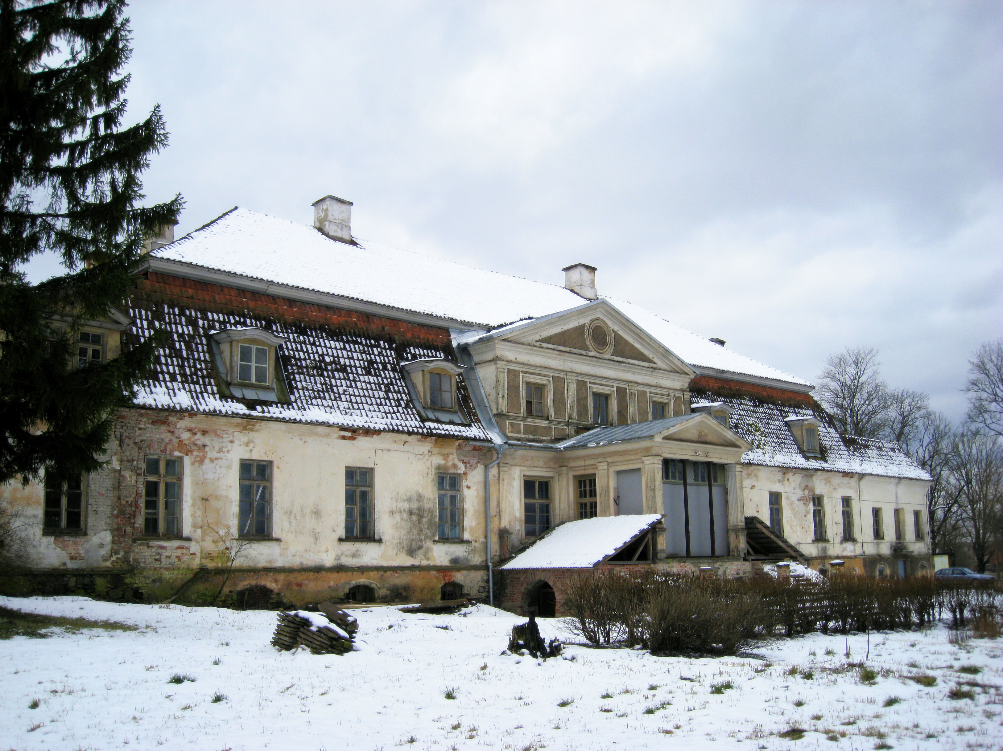 Kabile ManorLatviešu: Kabiles muižas pils